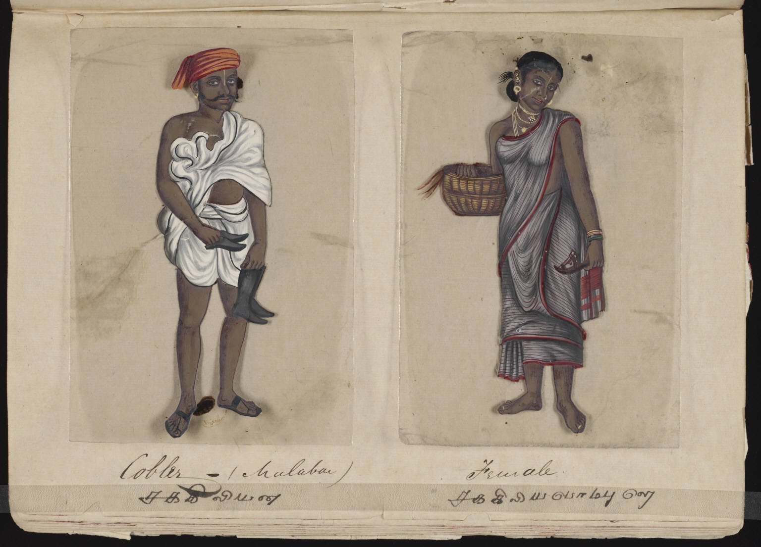 A page from the manuscript Seventy-two Specimens of Castes in India, which consists of 72 full-color hand-painted images of men and women of the various castes and religious and ethnic groups found in Madura, India at that time. Each drawing was made on mica, a transparent, flaky mineral which splits into thin, transparent sheets. As indicated on the presentation page, the album was compiled by the Indian writing master at an English school established by American missionaries in Madura, and given to the Reverend William Twining. The manuscript shows Indian dress and jewelry adornment in the Madura region as they appeared before the onset of Western influences on South Asian dress and style. Each illustrated portrait is captioned in English and in Tamil, and the title page of the work includes English, Tamil, and Telugu.